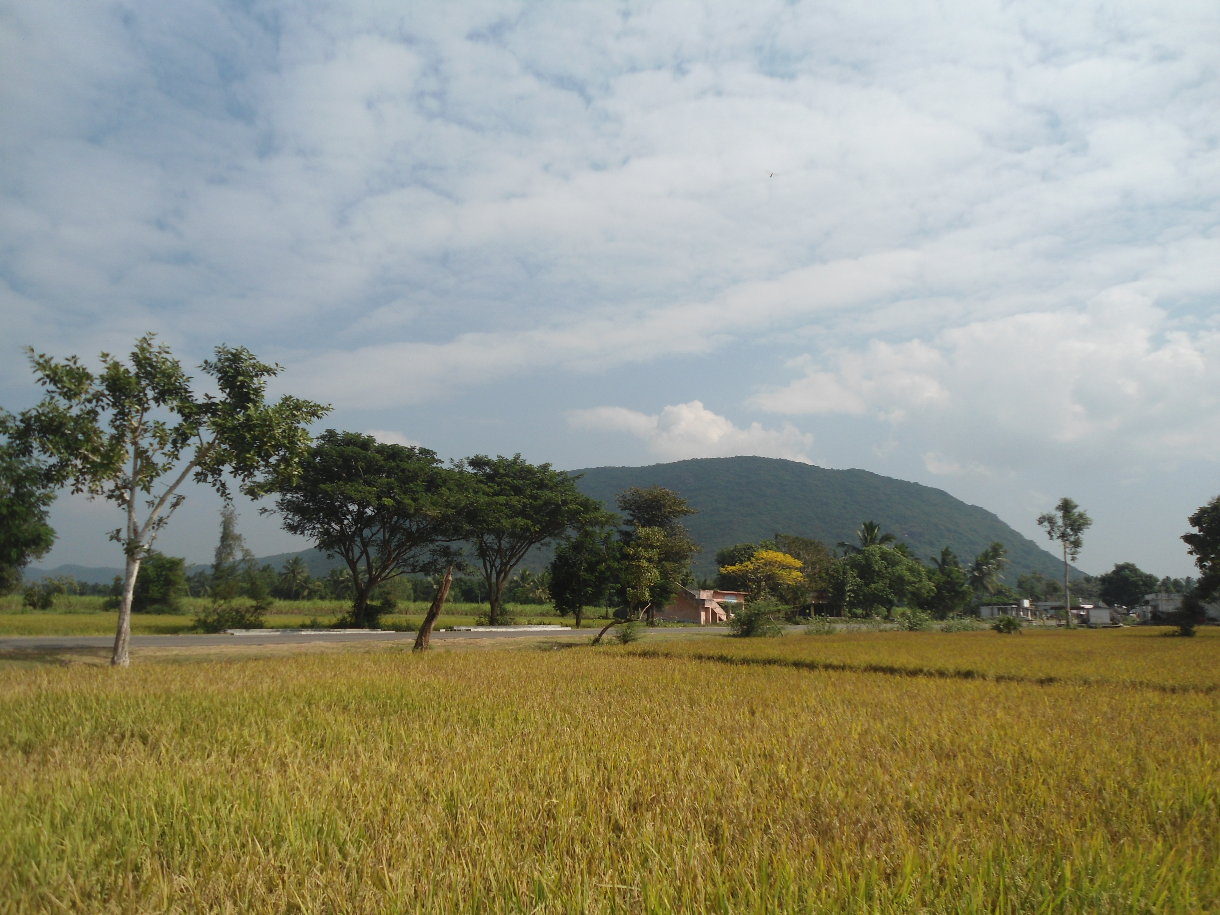 Paddy Fields at Kondakarla Village, Visakhapatnam district